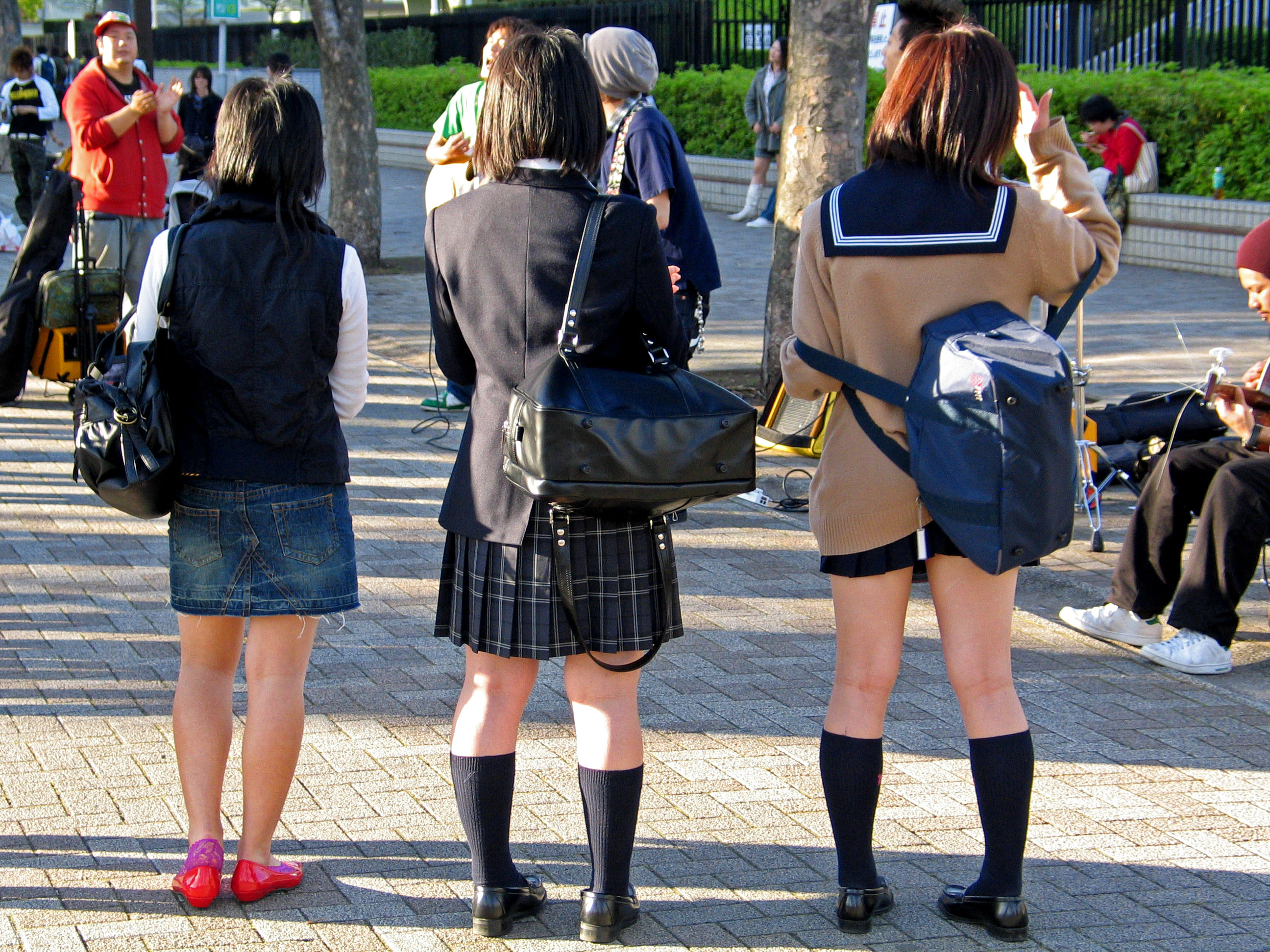 Somewhere in Tokyo (close to the NHK broadcast)